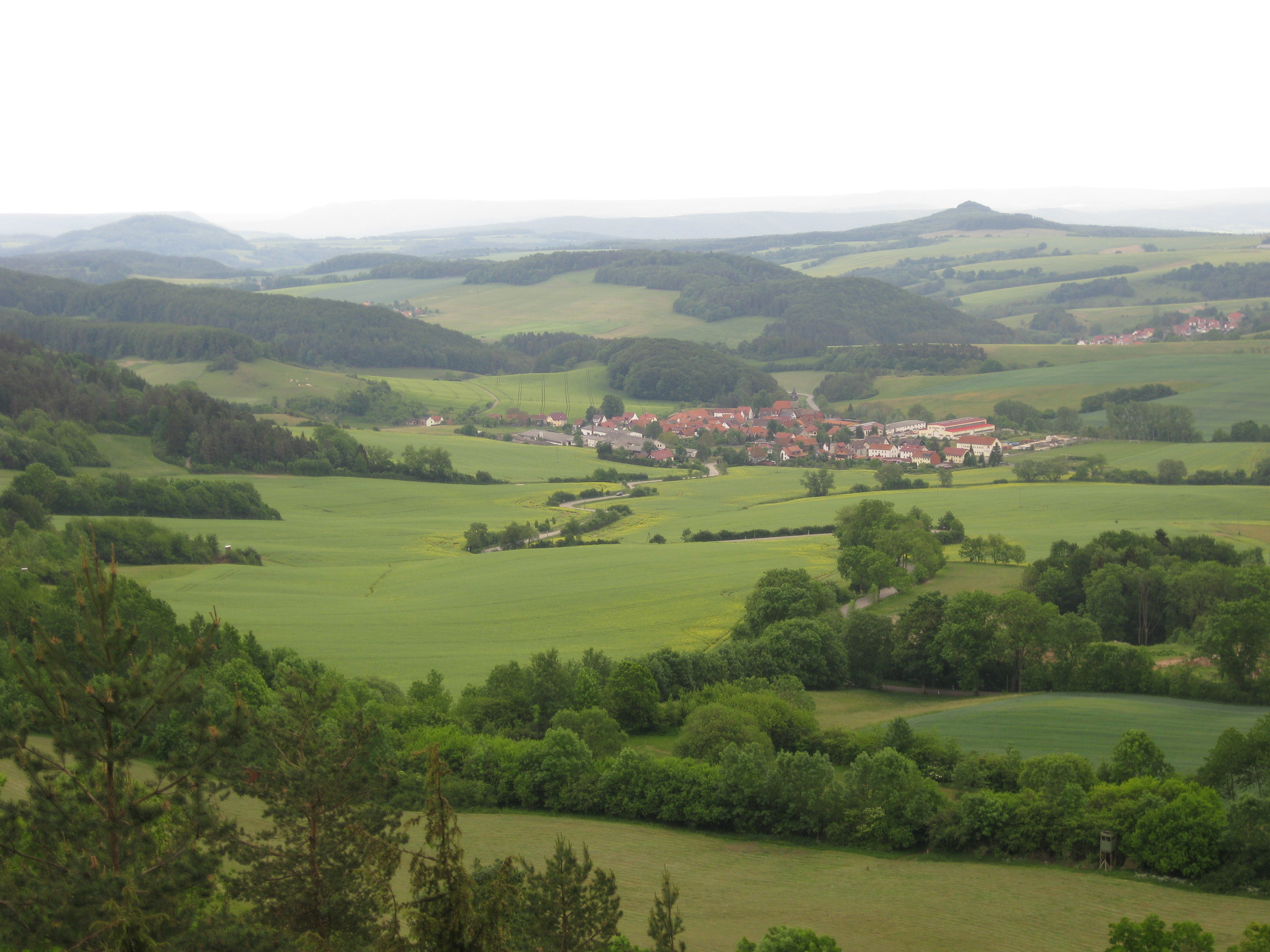 Dieteröder Klippen (3)